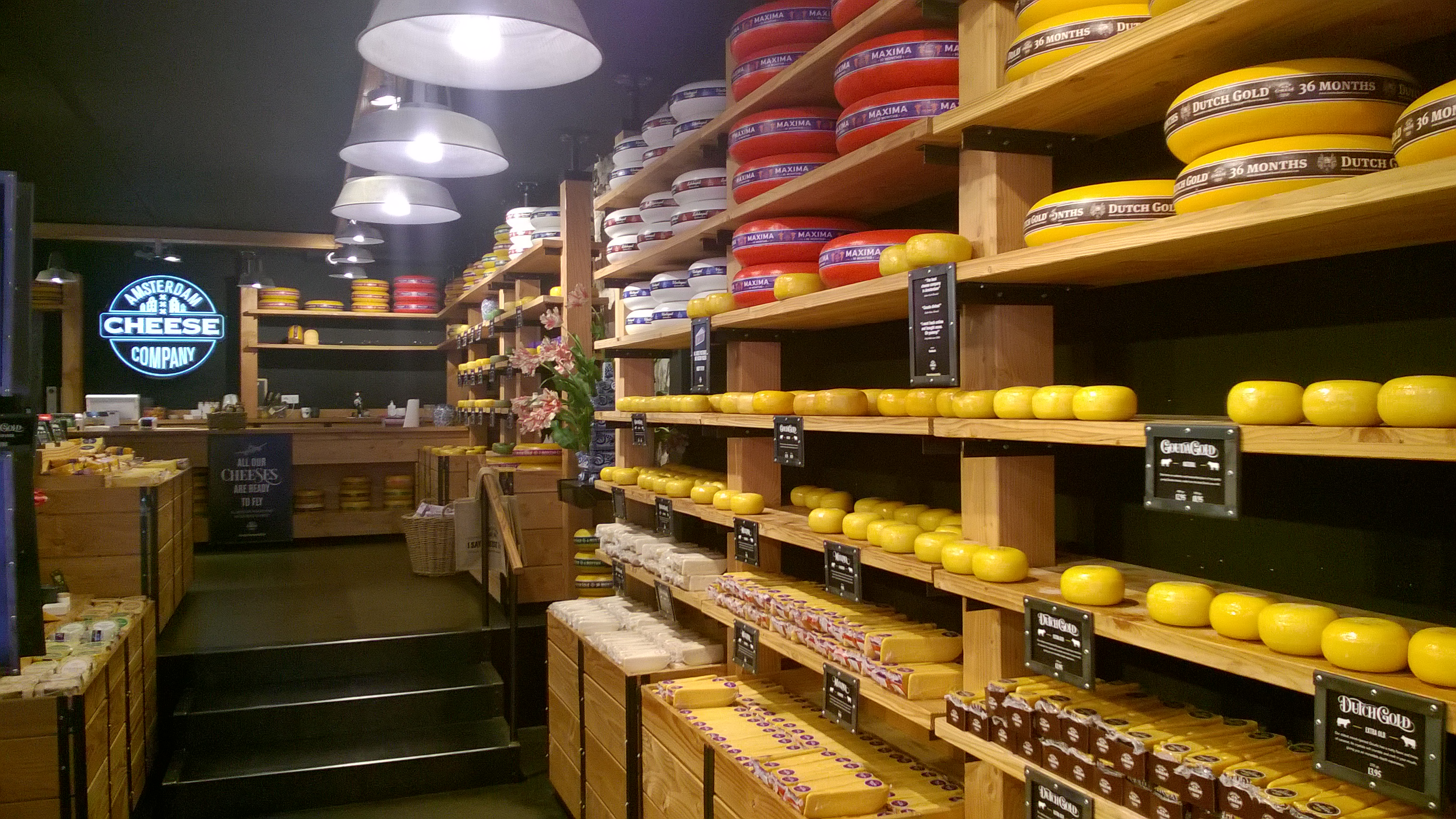 A local cheese shop in the city of Amsterdam.